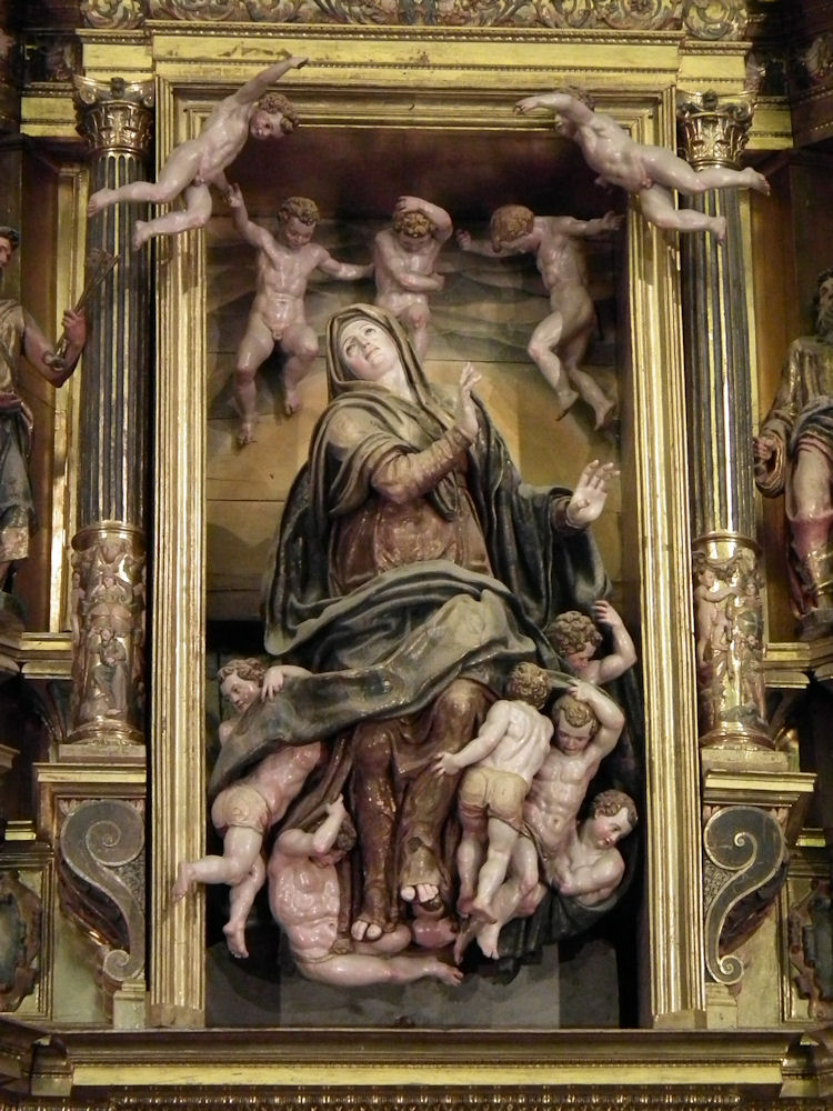 Details on the Main Altar of the Catedral de Santa María, Astorga, León, Spain